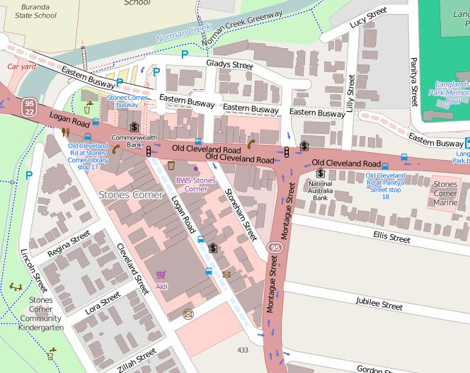 Open Street Map - Stones Corner